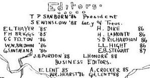 Masthead displaying names of editors of the Harvard Lampoon in 1886